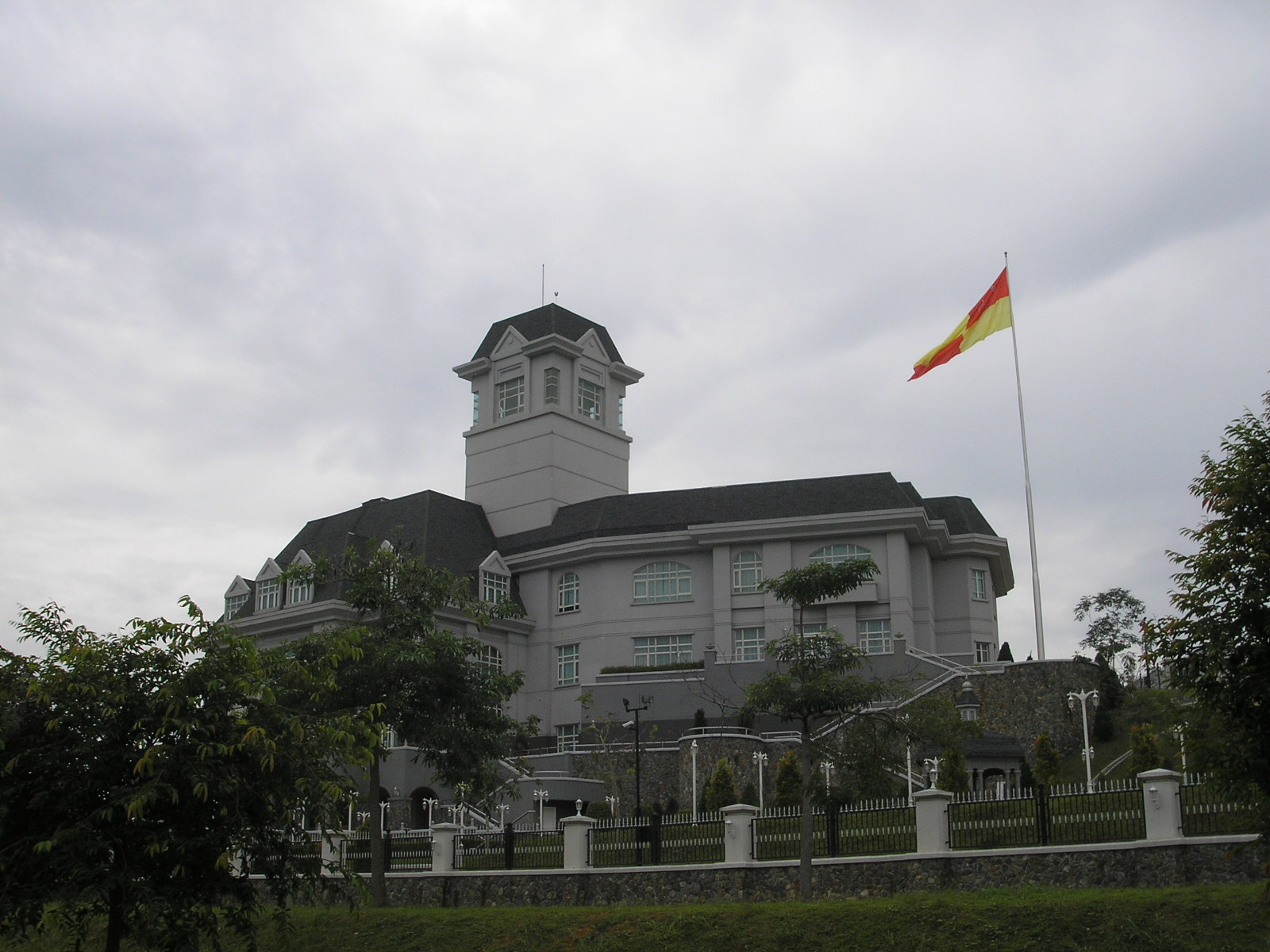 The Istana Darul Ehsan in Putrajaya, residence of the Sultan of Selangor.